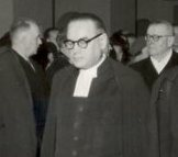 Lauri Apajalahti